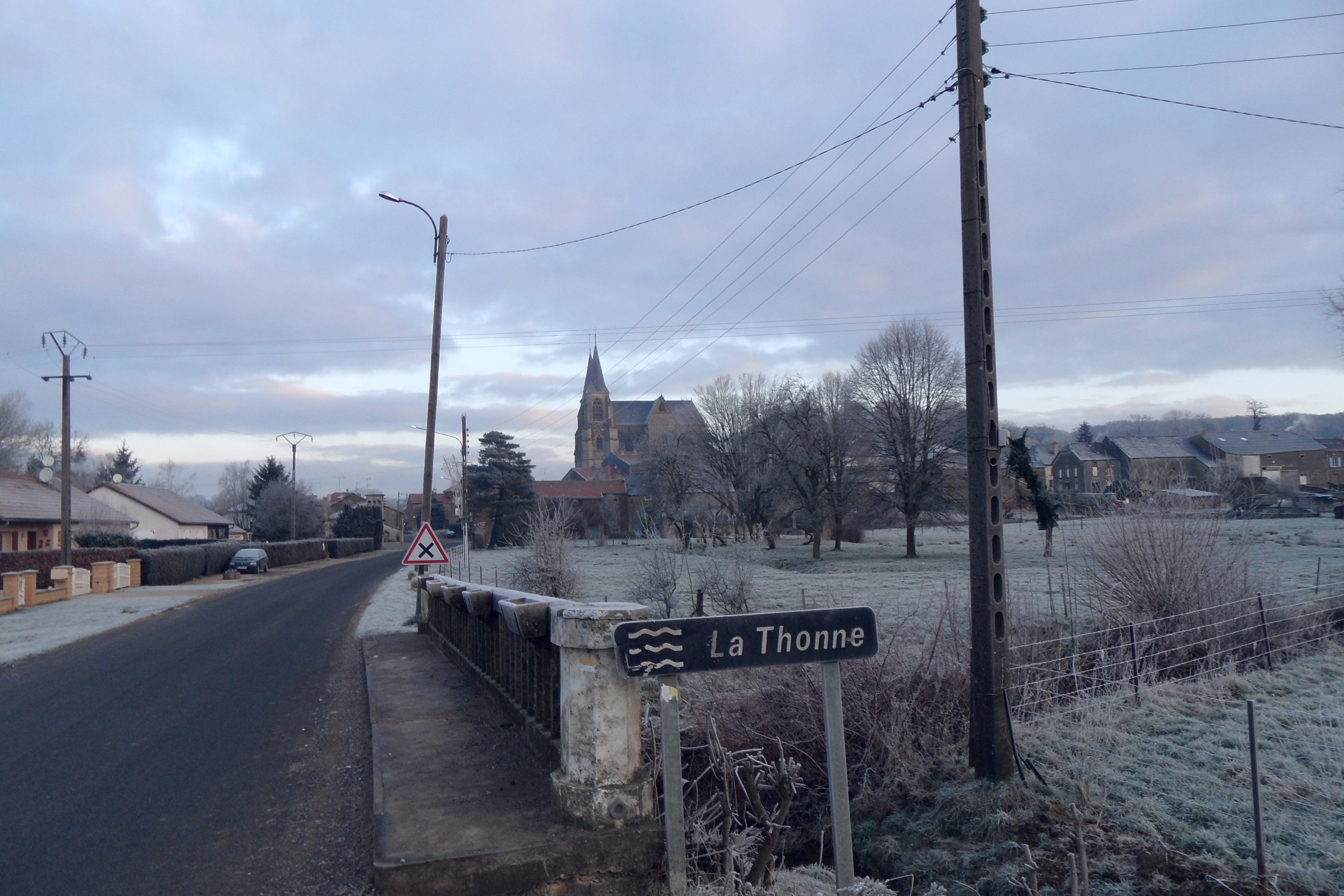 Bridge on the Thonne river at Avioth (France, Meuse Department).Unknown pont sur la thonne à avioth (55, lorraine, france).